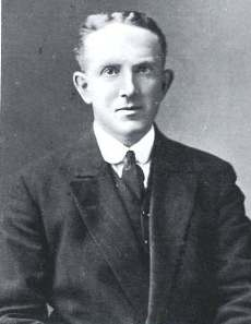 Hugh Comyn, English badminton player